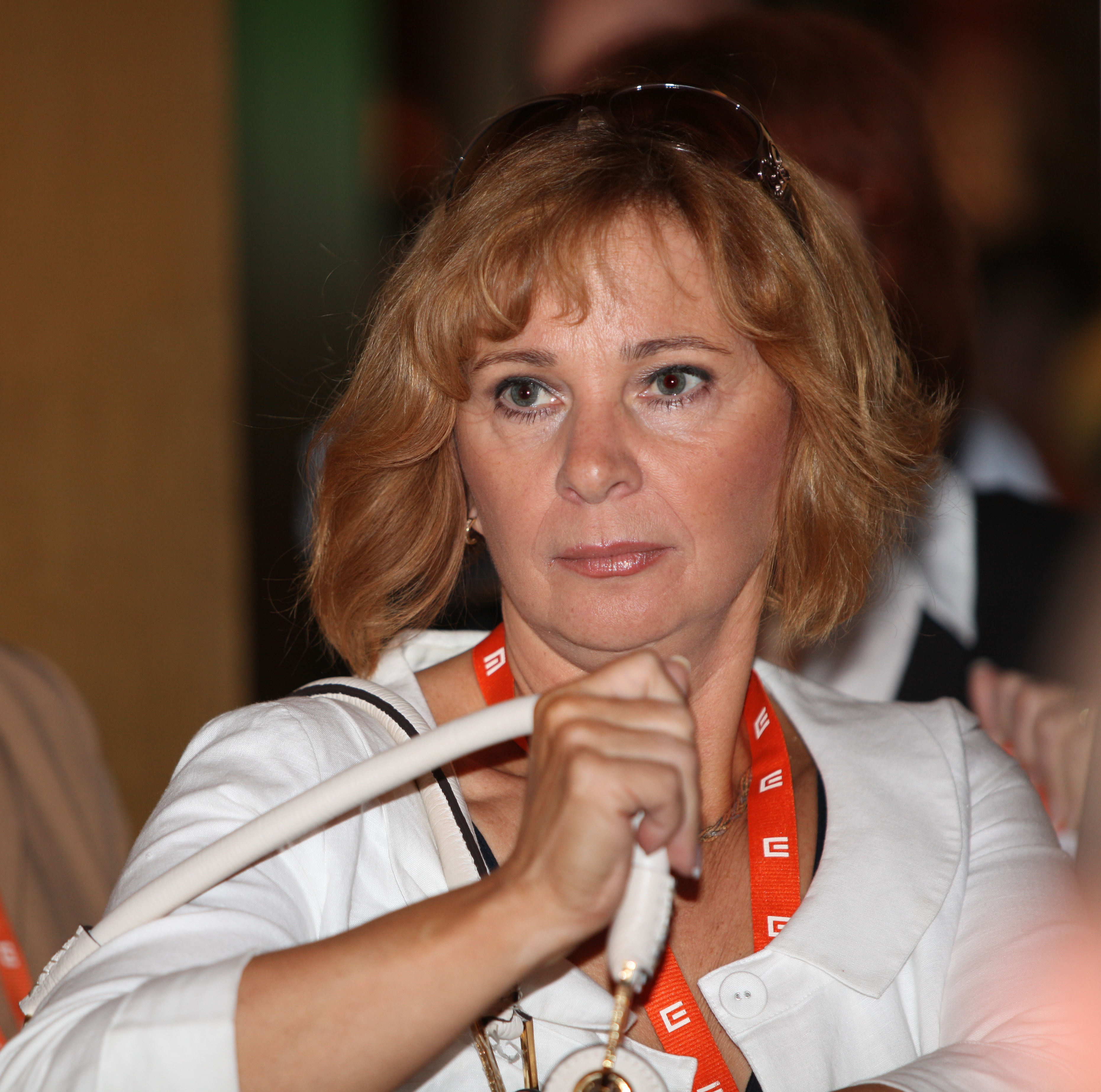 Slovak actress Kamila Magálová at 44th Karlovy Vary International Film Festival